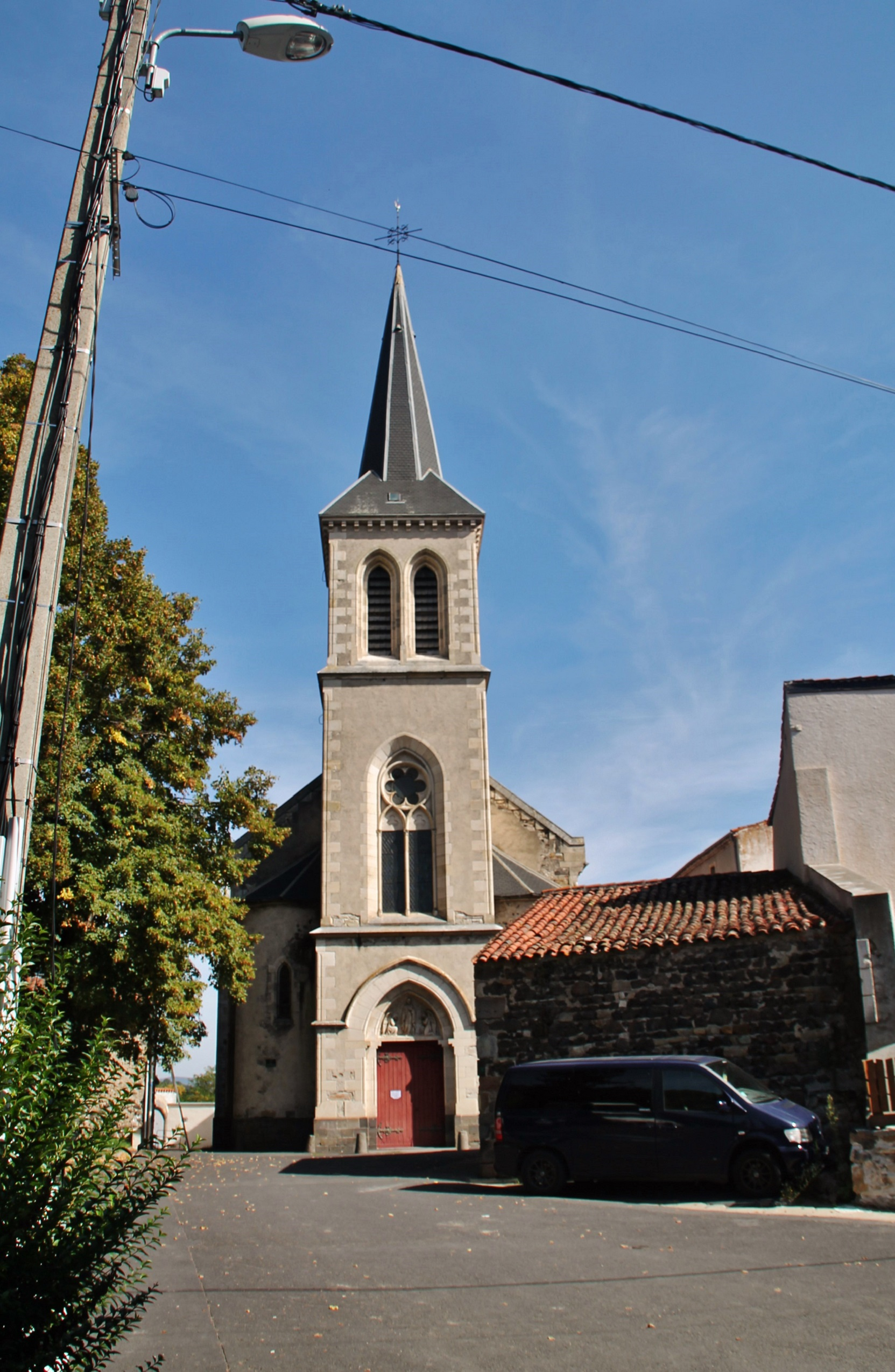 L'église